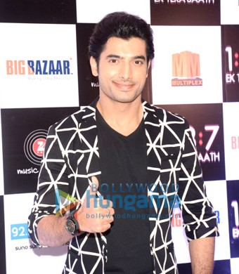 Sharad Malhotra at Music and trailer launch of Hindi film Ek Tera Saath.